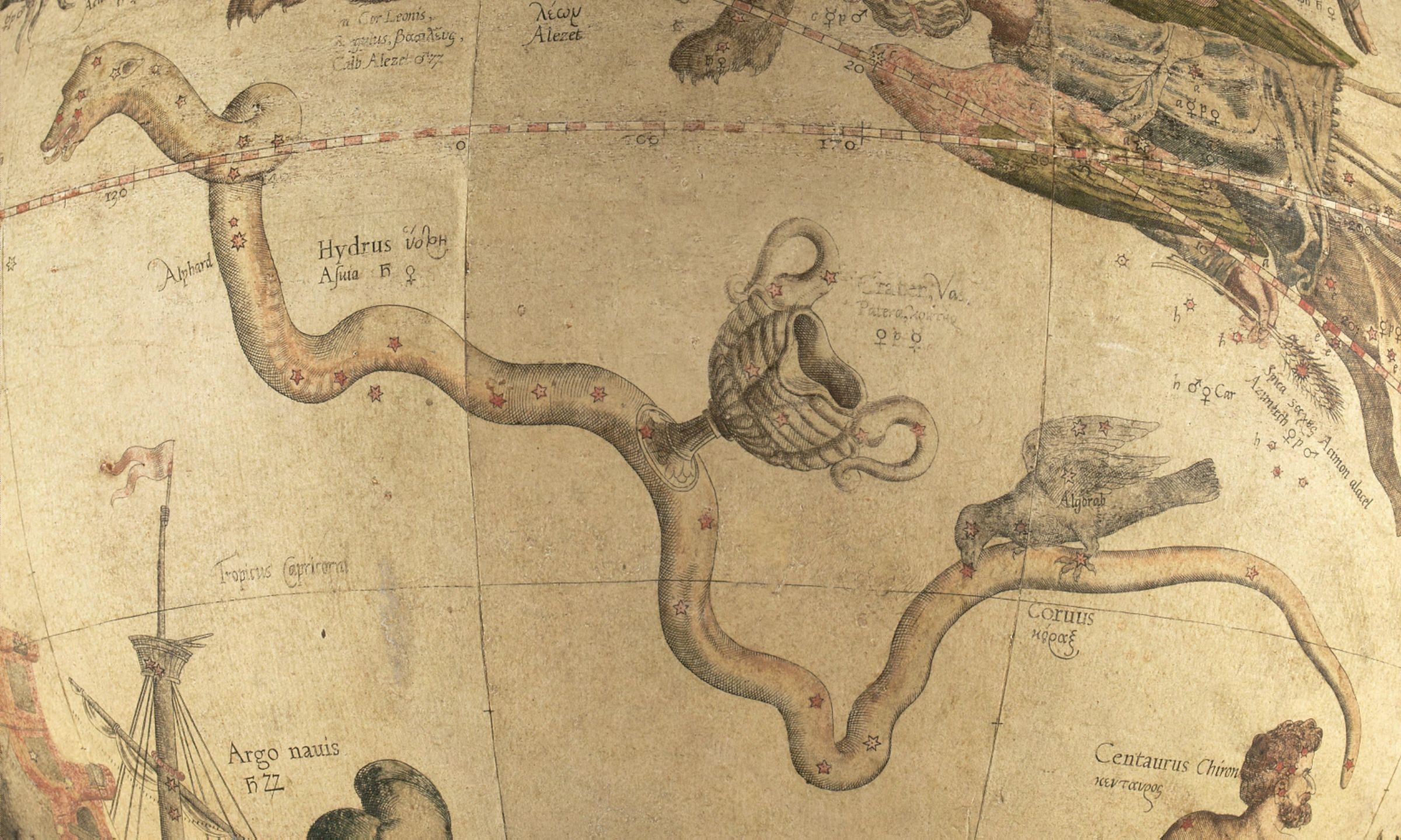 Hydra, Corvus and Crater constellations from the Mercator celestial globe.